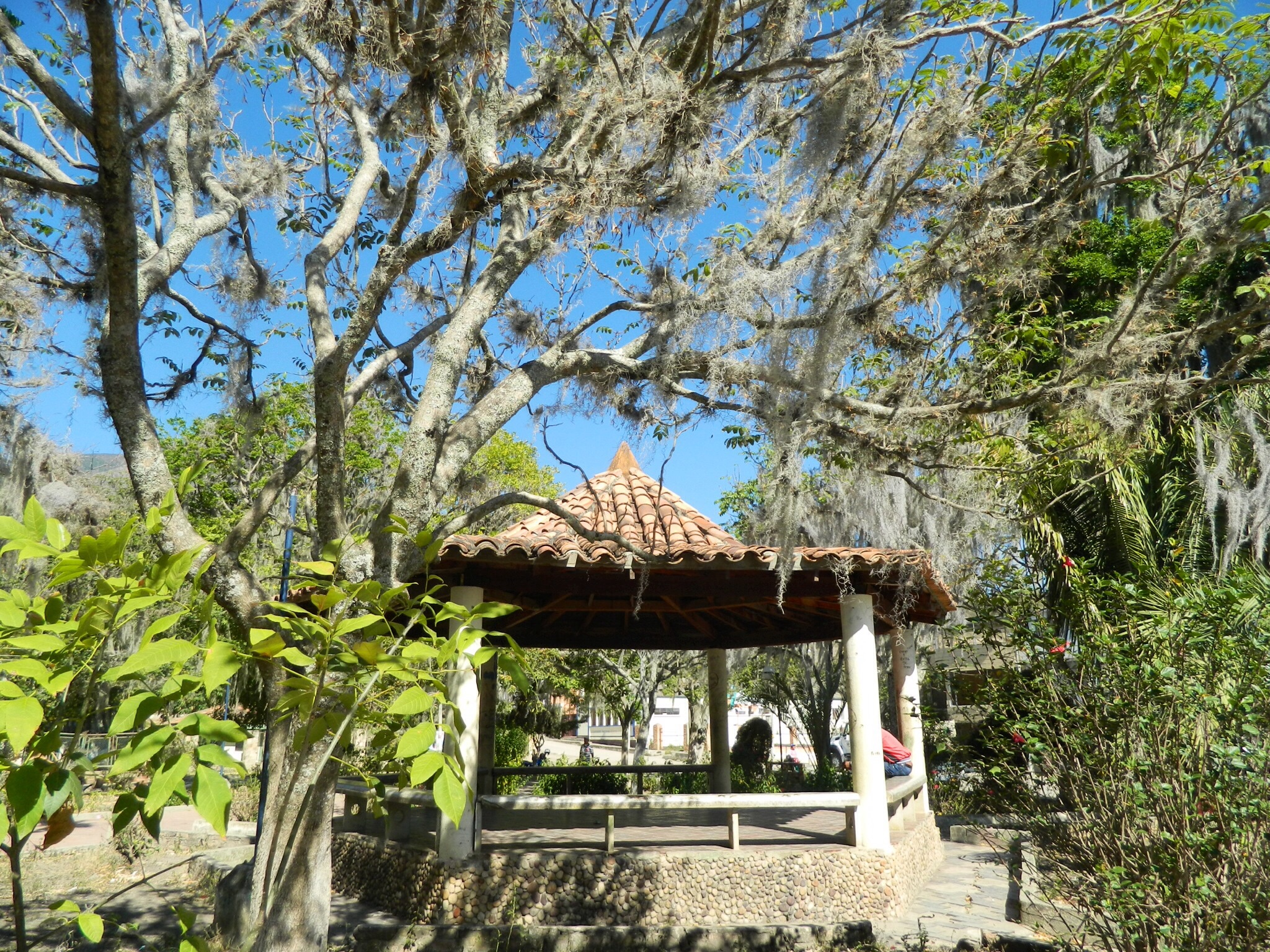 Parque Juan José Rondón